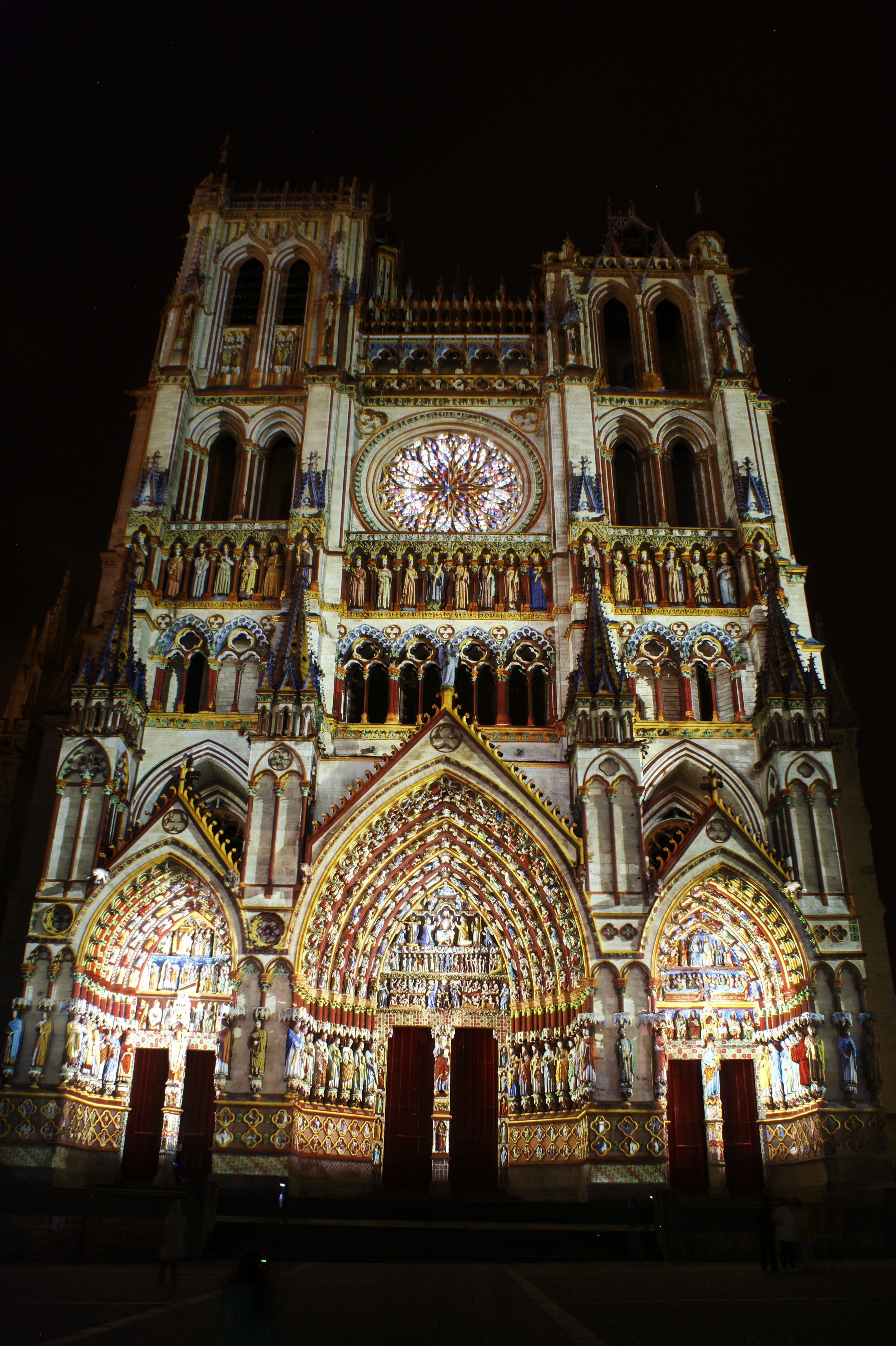 The front façade fully illuminated in colours .